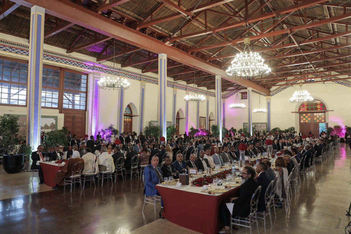 Diners sitting down for the Dine for Sheger event in Ethiopia.